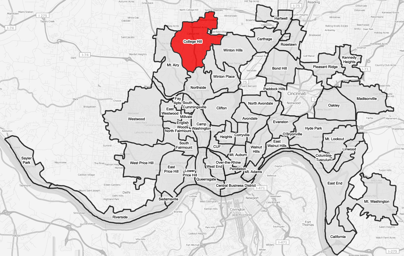 A map of the neighborhood of College Hill within Cincinnati, Ohio. Neighborhood lines are based on information from This street map is derived from a free map.